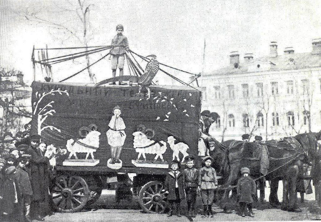 Efimov Theatre in Moscow, 1919. Published in Советский художник, 1982